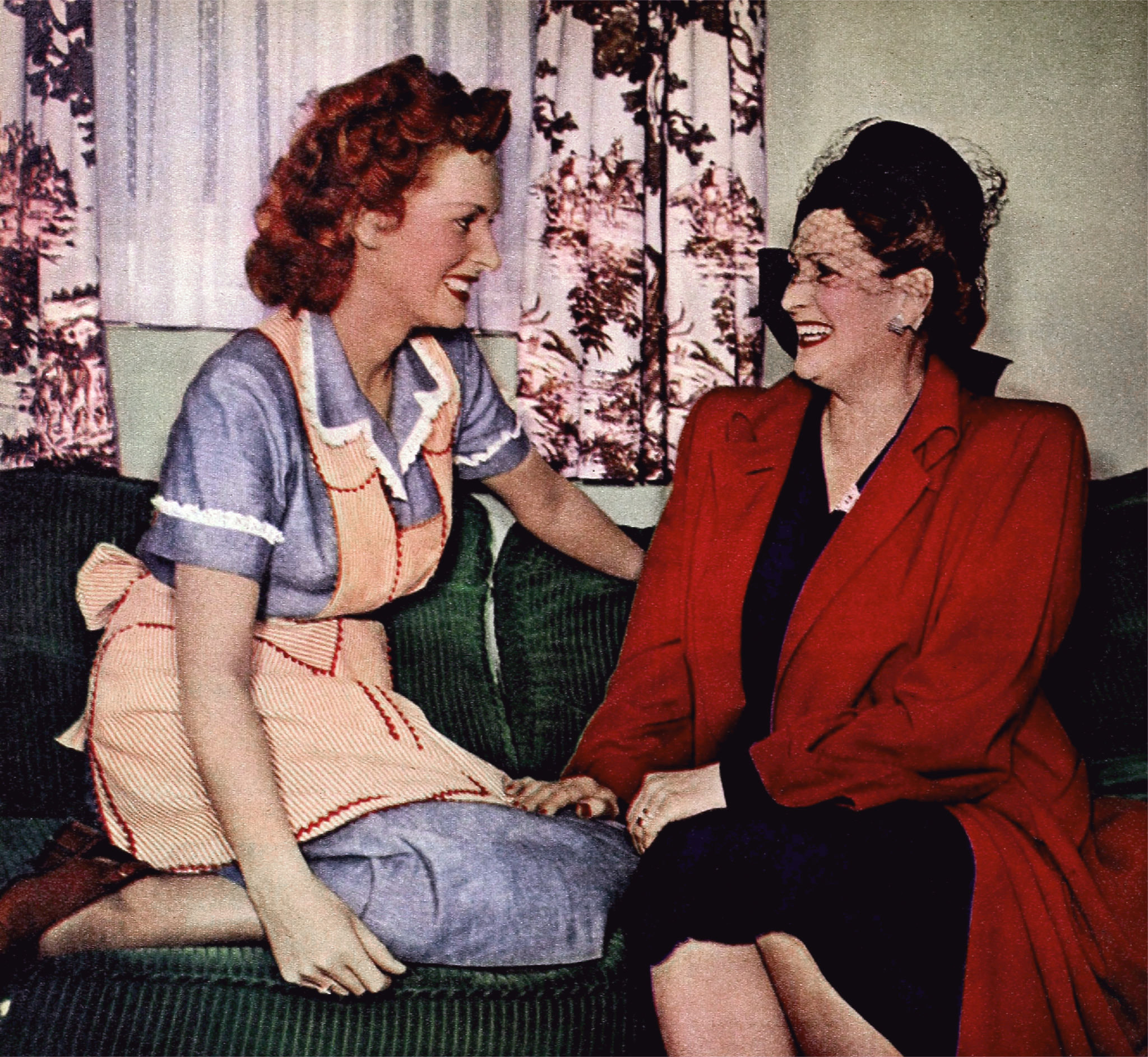 Photo of Maureen O’Hara and her mother from Modern Screen magazine.